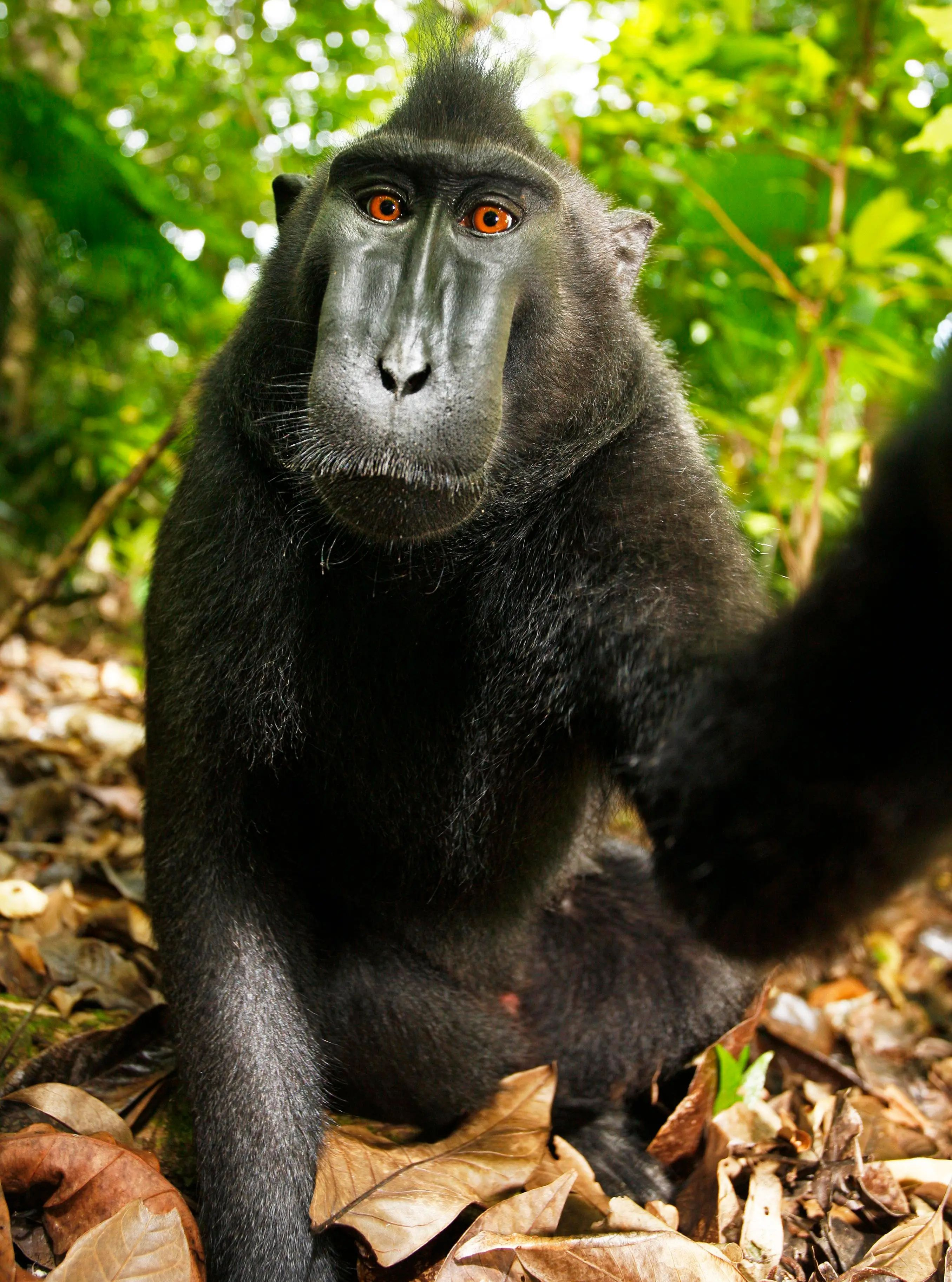 Self-portrait of a female Celebes crested macaque (Macaca nigra) in North Sulawesi, Indonesia, who had picked up photographer David Slater's camera and photographed herself with it.